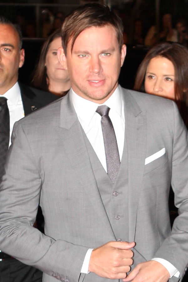 Channing Tatum Warner Bros. & Hoyts red carpet Arena Premiere of Magic Mike XXL